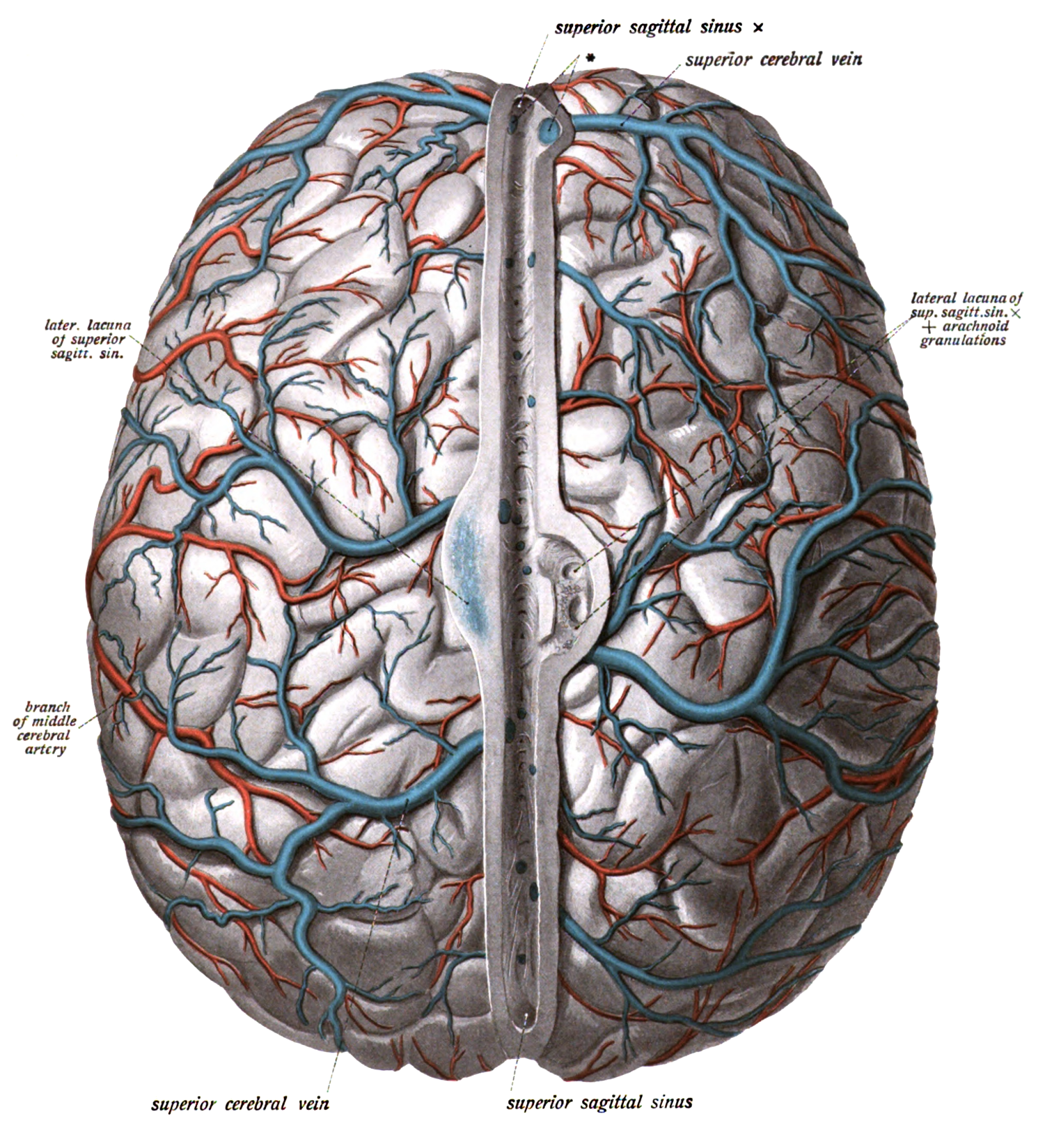 An anatomical illustration from Sobotta's Human Anatomy 1908